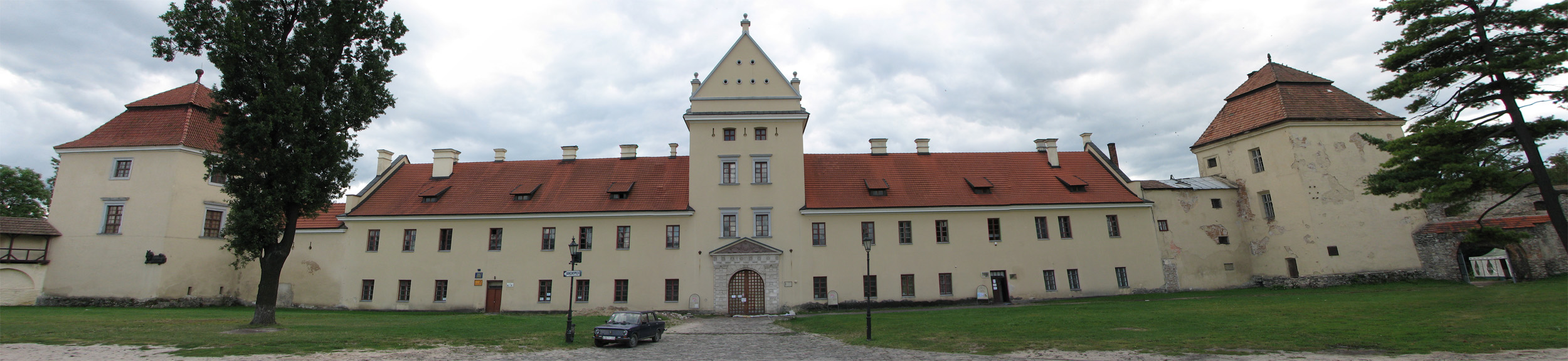 Renaissance castle in Zhovkva, Lviv Region.